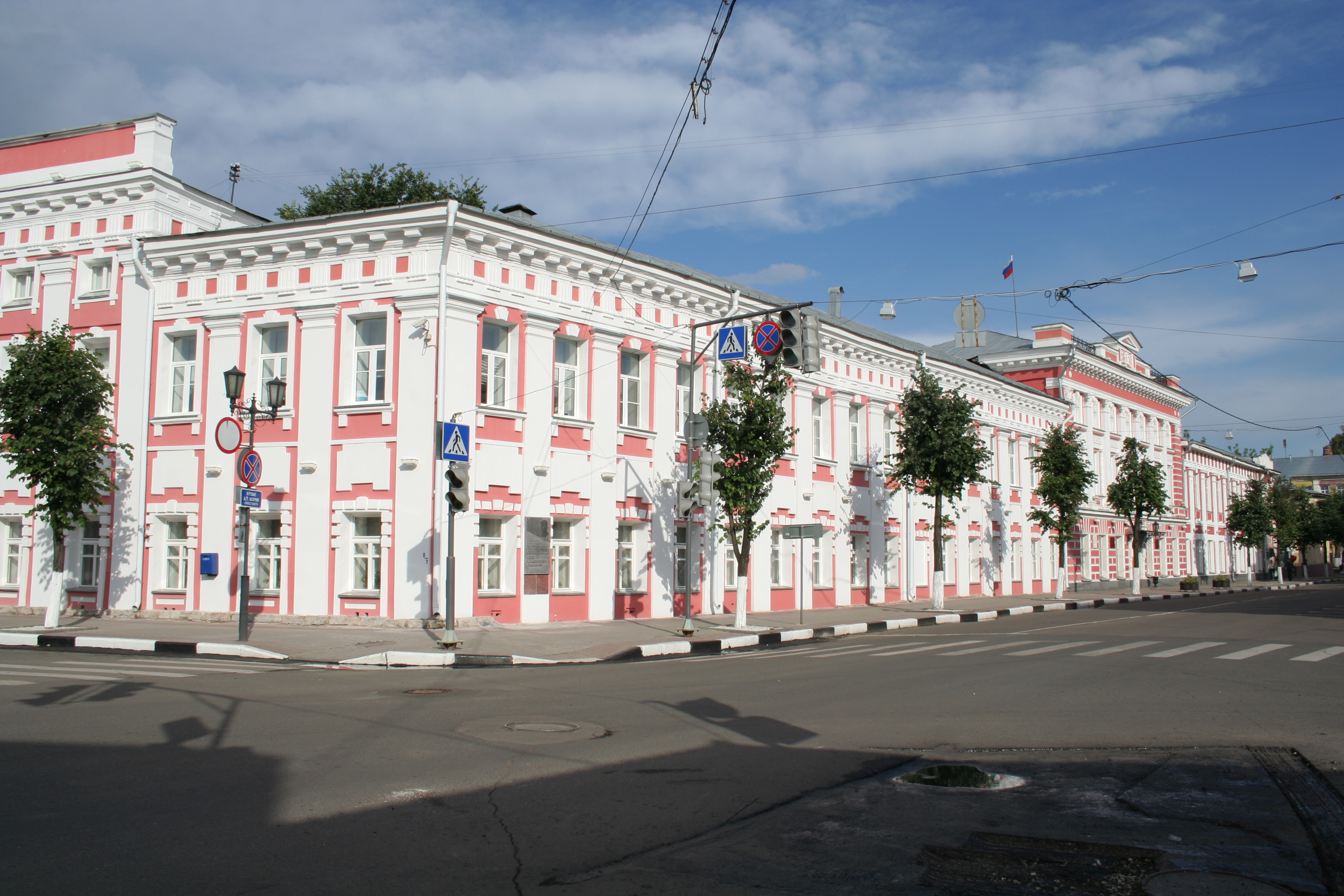 House of the city administration in Yaroslavl, Russia